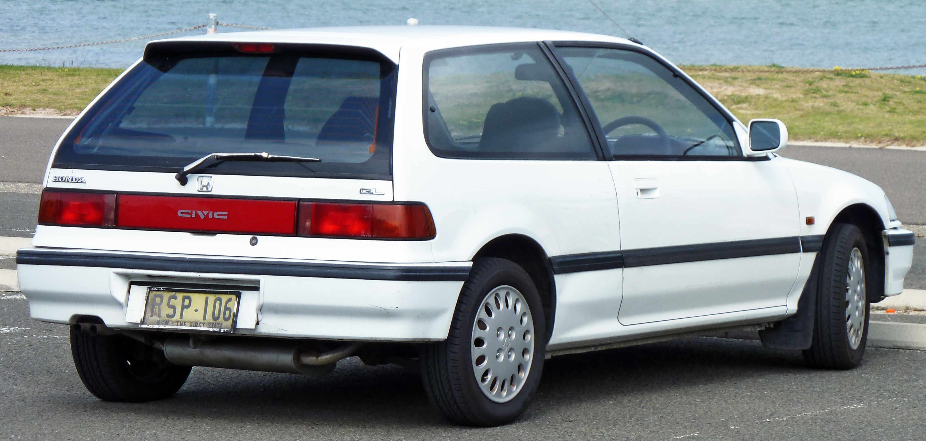 1991 Honda Civic (ED) GL hatchback. Photographed in Sans Souci, New South Wales, Australia.